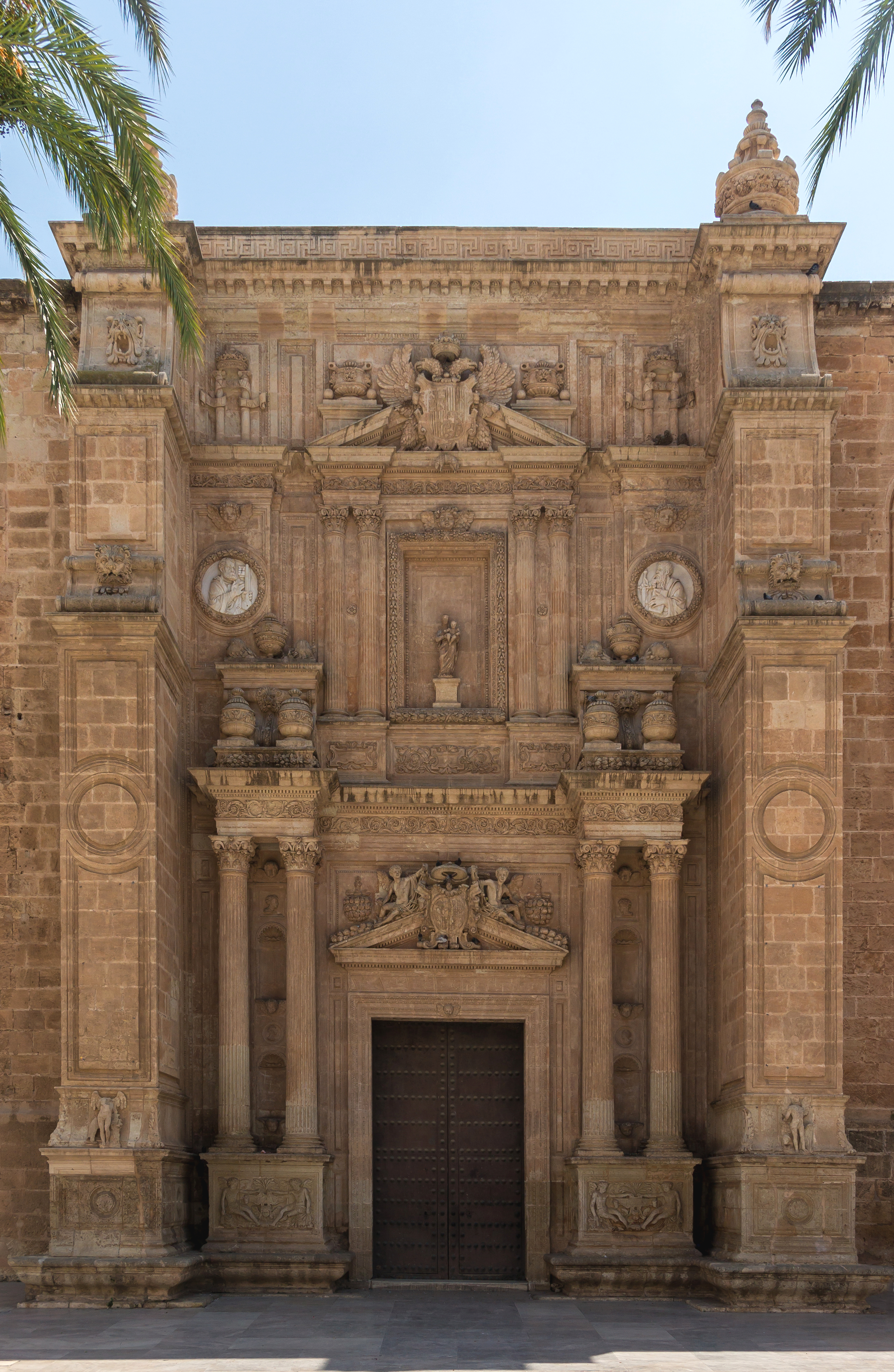 The main entrance of the Cathedral, Almeria, Spain.